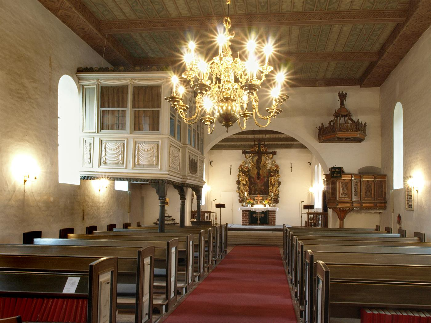 Haseldorf, Slesvic-Holstein (Germany), church St. Gabriel, photo 2008